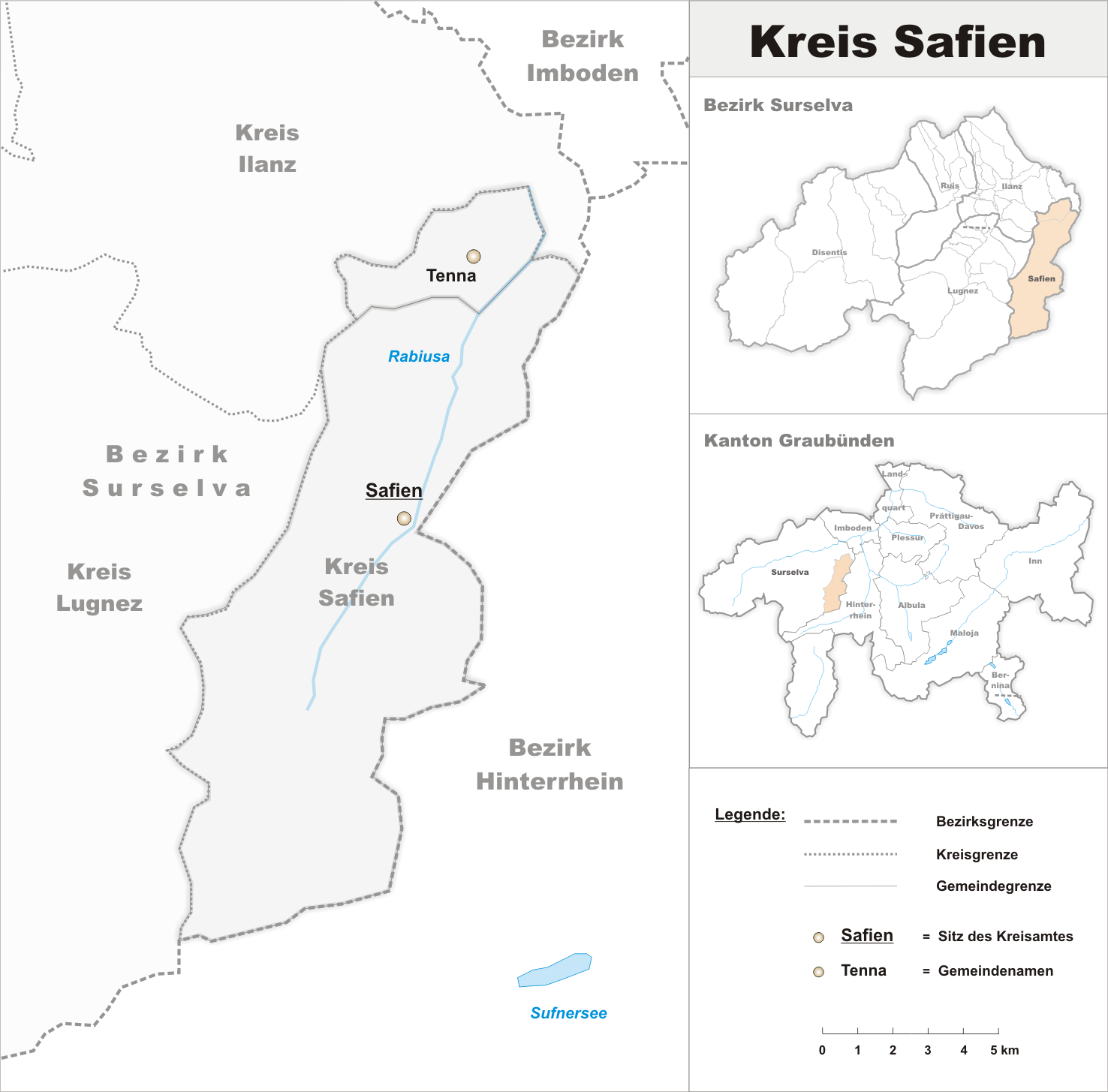 Municipalities in the circle of Safien